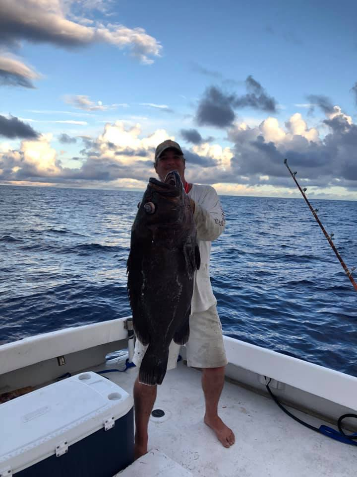 37 lb Hawaiian Grouper caught by Capt. Anthony Ballam on the Northeastern coast of Hawaii Island in 658 feet of water on November 8, 2019.